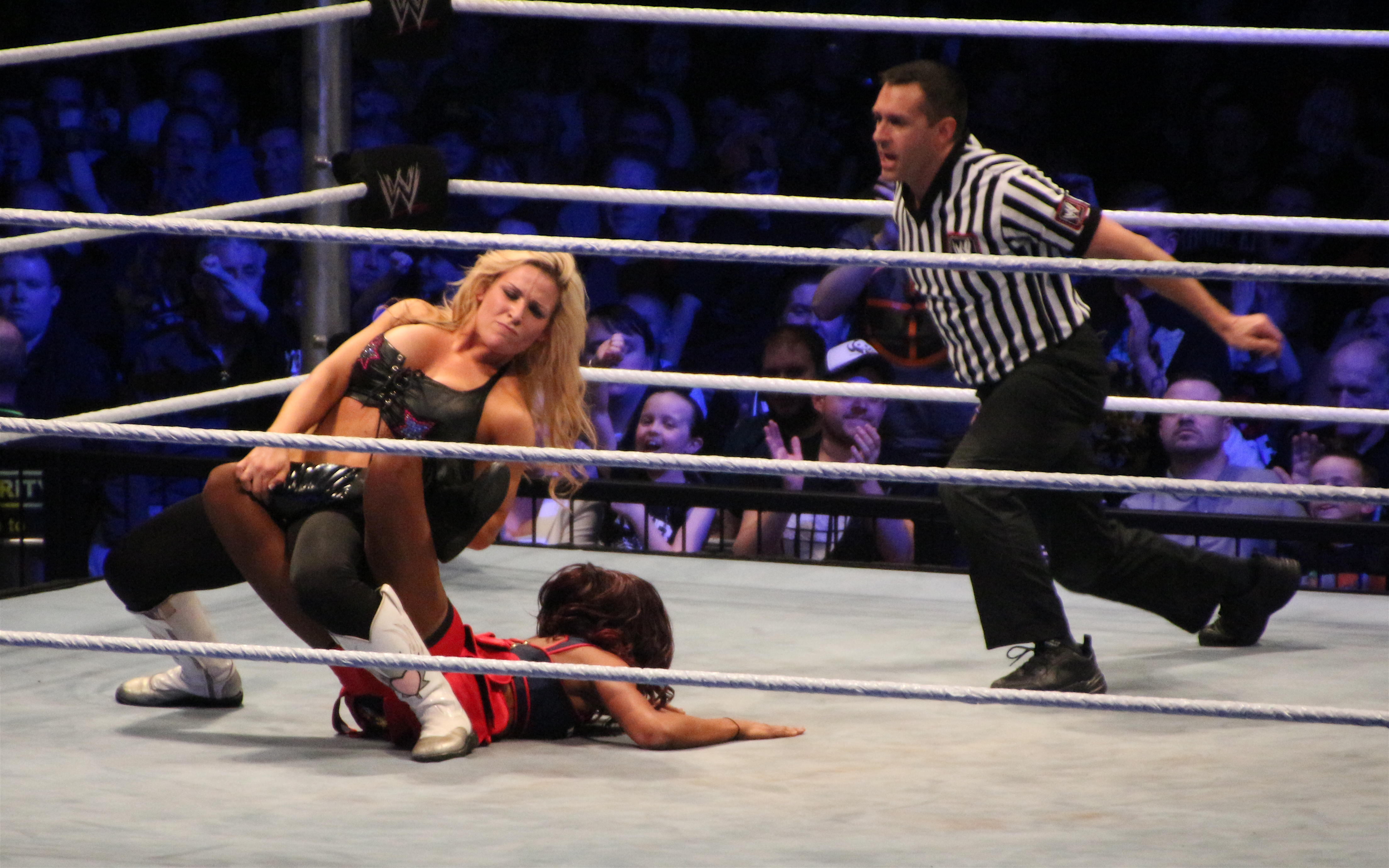 WWE Smackdown Wrestlemania Revenge